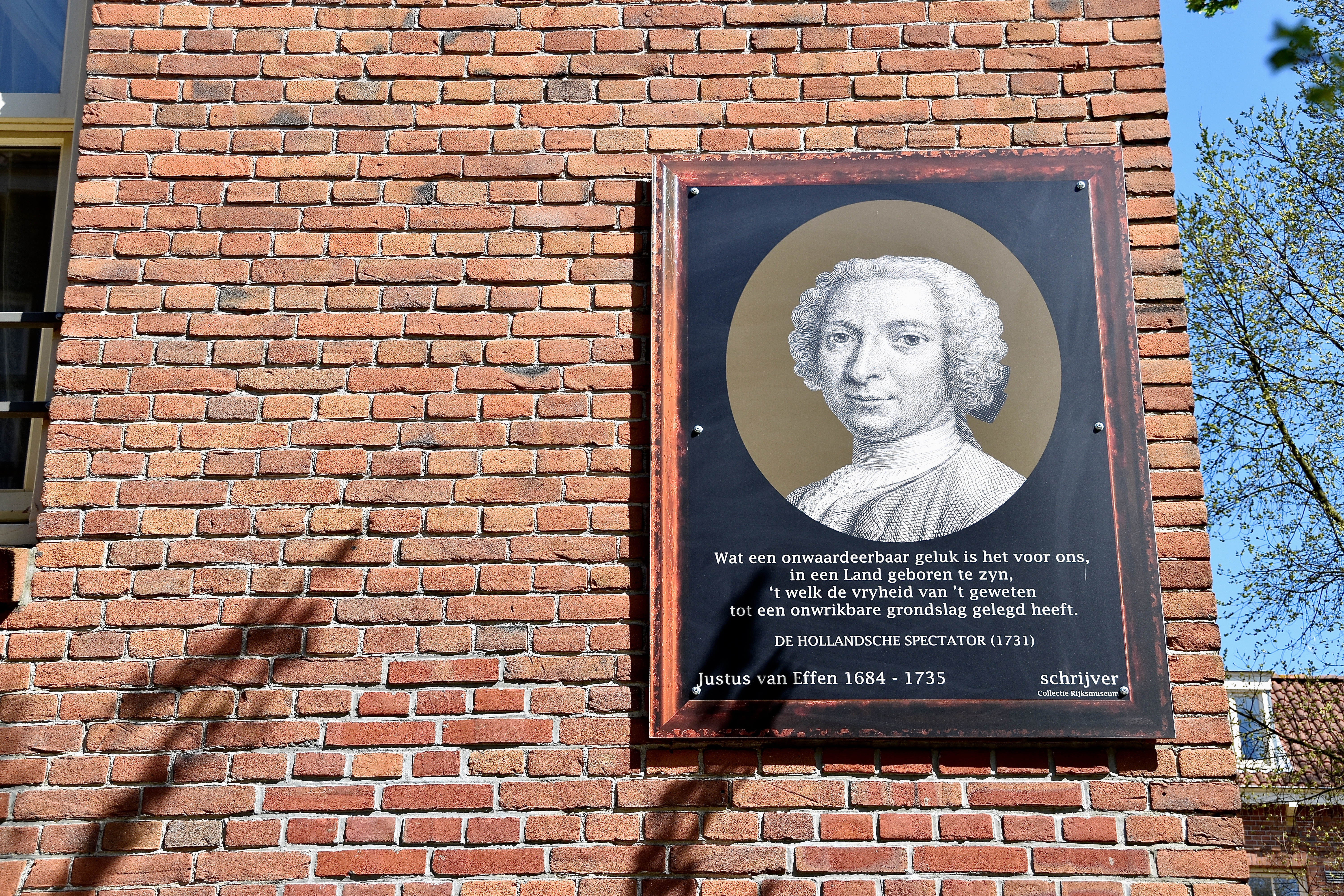 In honor of Dutch writer Justus van Effen (1684-1735)